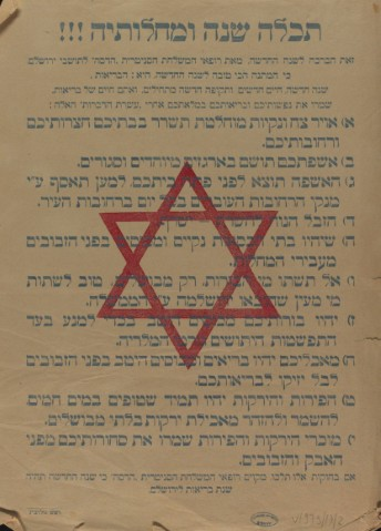 A Pamphlet of Haddassah giving hygiene tips